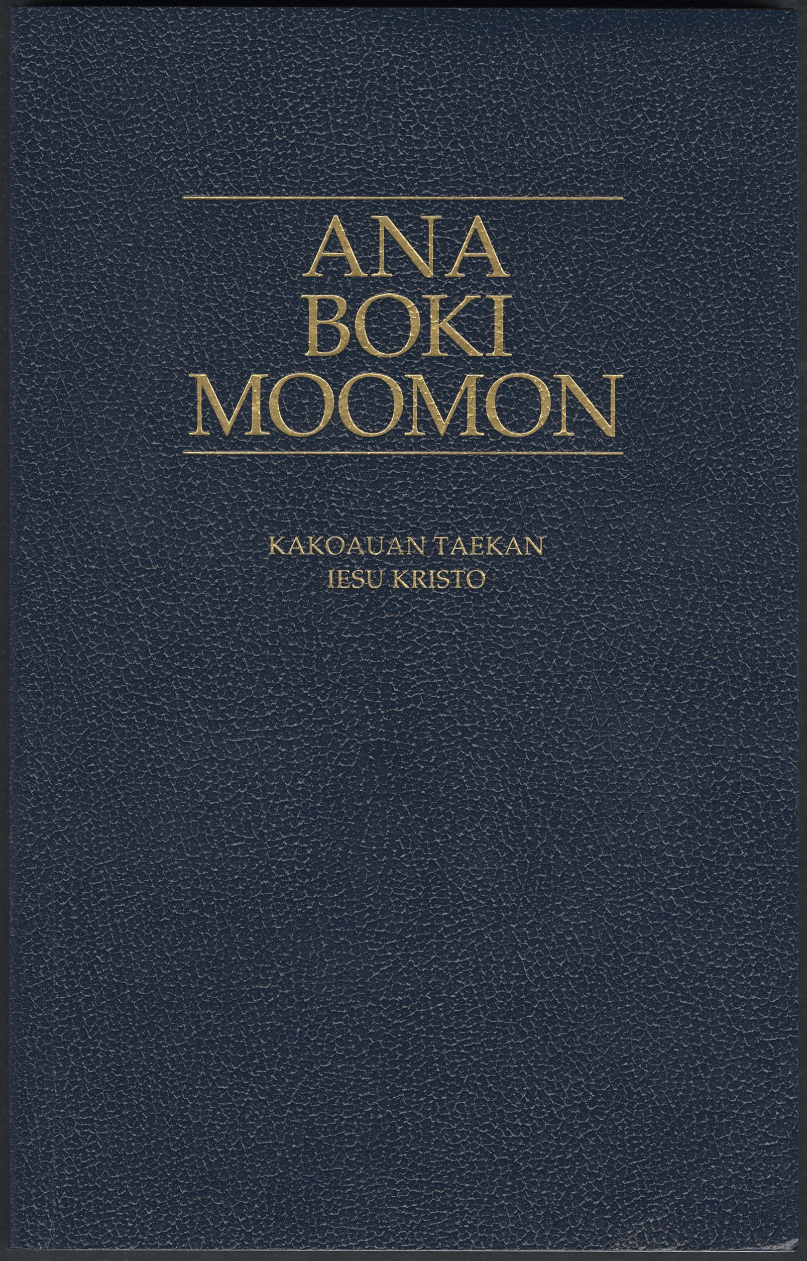 cover of the 2001 edition of the Book of Mormon in the Gilbertese language (native to Kiribati); title is "Ana Boki Moomon"